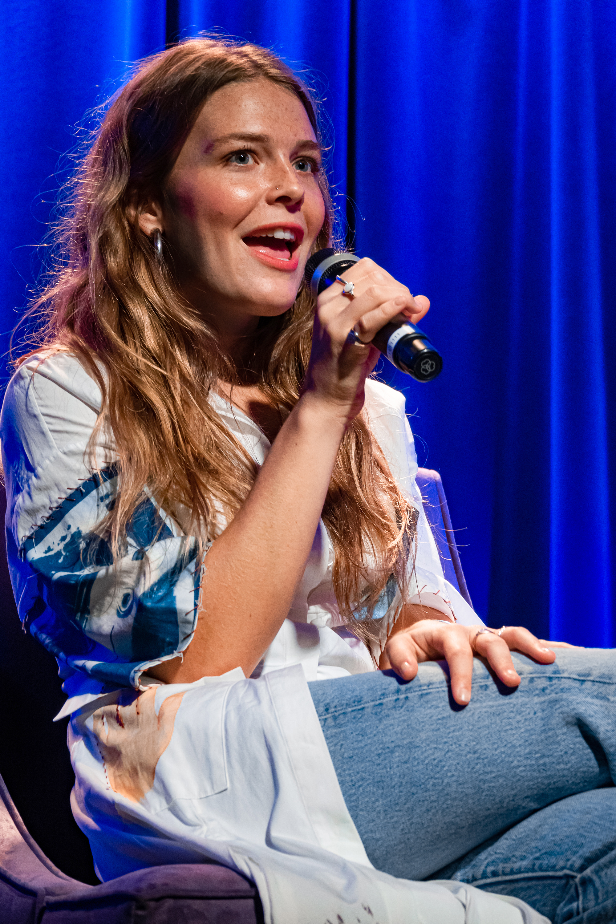 Maggie Rogers performing live at the Grammy Museum in Los Angeles on 09/15/2019.